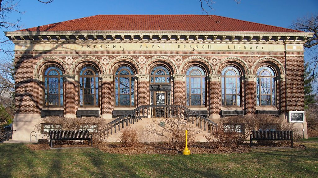 St Anthony Park Branch Library, St Paul, Minnesota, USA